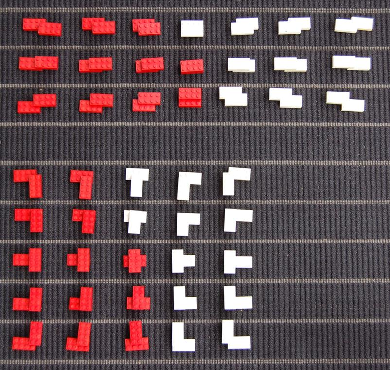 Photograph on all possible arrangements of two 4x2 lego bricks with identical colour. The 24 red pairs represent the 24 unique possiblities, while the white pairs are redundant by symmetry.